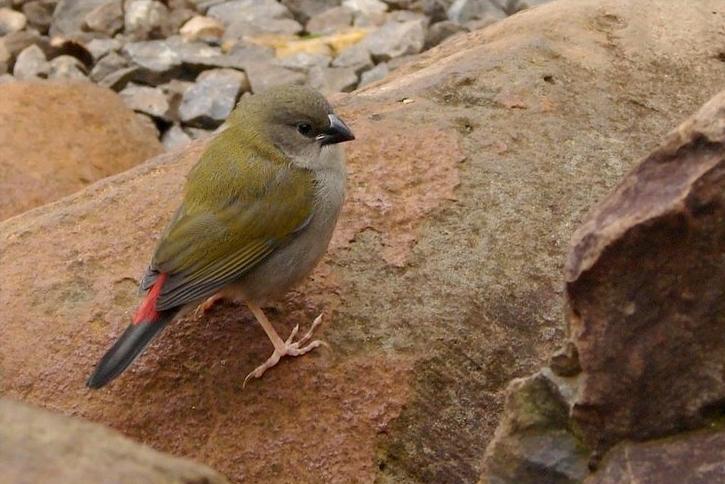 Neochmia temporalis immature. Mowbullan, Queensland, Australia 26°51'54"S 151°36'26"E.